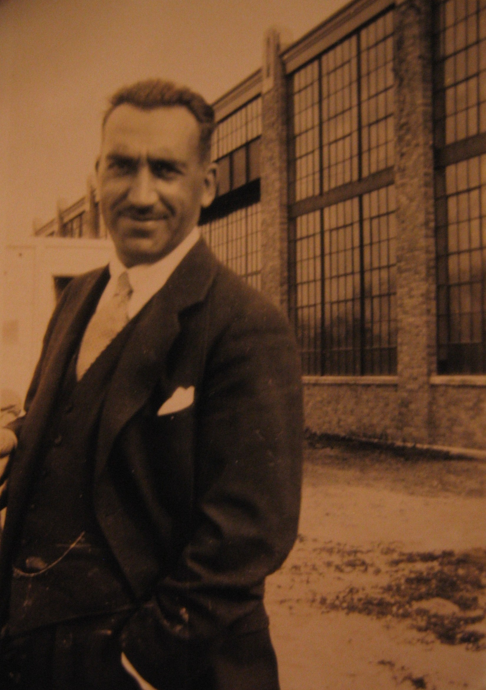 Italian-American aerospace engineer and aviation pioneer Enea Bossi sr at the factory of the American Aeronautical Corporation in Port Washington, New York. This was also the site of the New York Seaplane Airport, established in 1929.